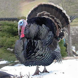 Arctic Bronze Turkey in Fairbanks Alaska 2007